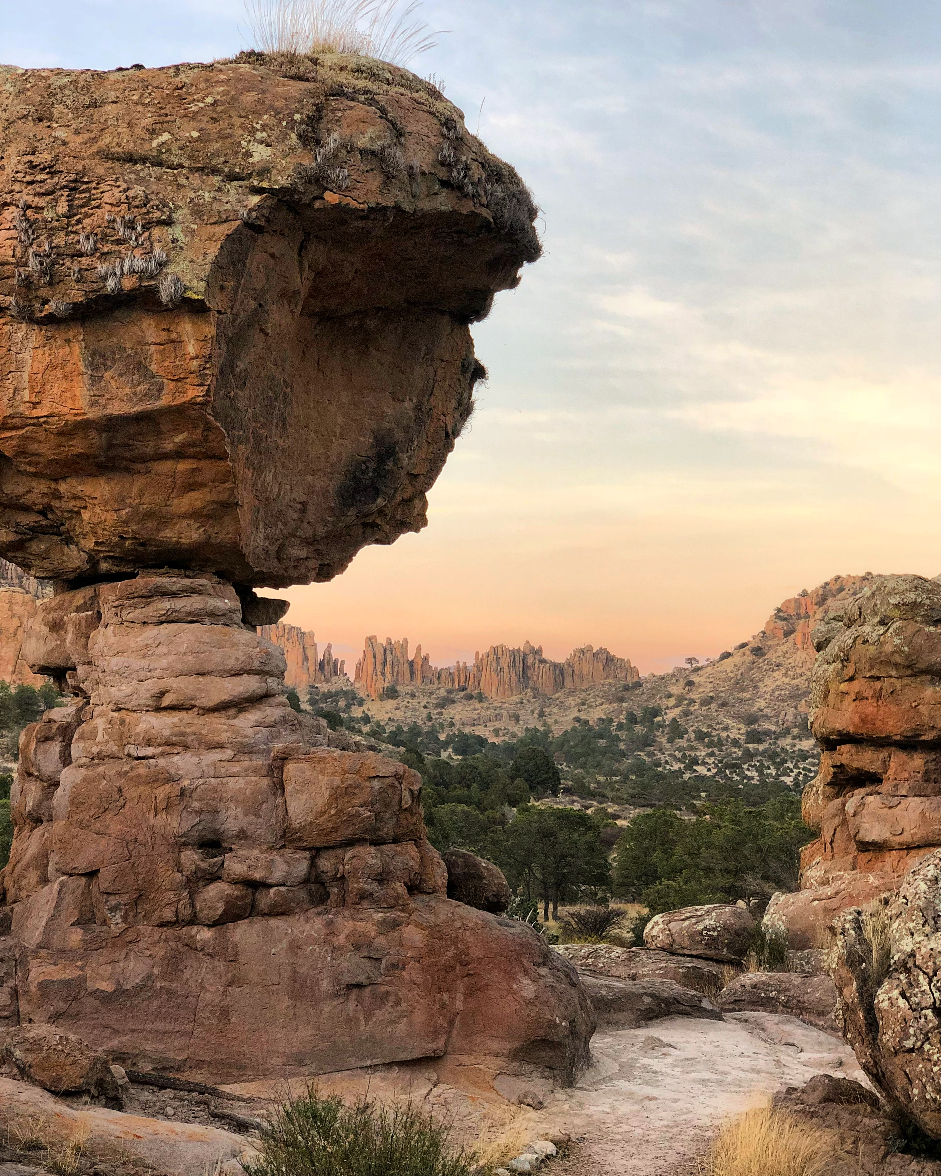 A sunset.